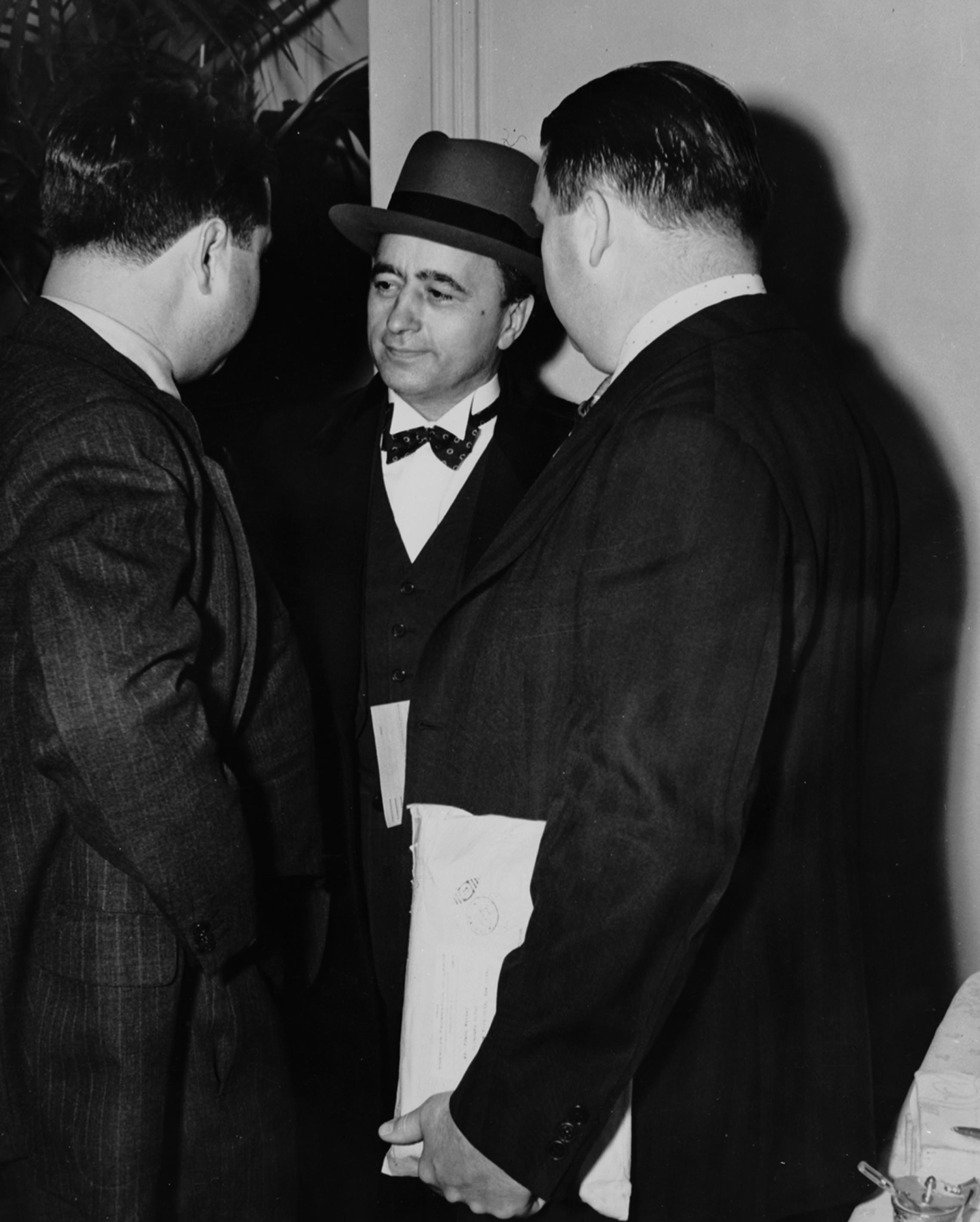 Title: Matthew Woll of the Photo Engravers Union, AFL, in center, talking to Mr. Pearl, publicity director for the AFL, and a newspaper reporter after a five-hour conference with the CIO at the Hotel Biltmore, March 10, 1939 Date: 1939 Photographer: Unknown Photo ID: 5780PB4F9H Collection: International Ladies Garment Workers Union Photographs (1885-1985) Repository: The Kheel Center for Labor-Management Documentation and Archives in the ILR School at Cornell University is the Catherwood Library unit that collects, preserves, and makes accessible special collections documenting the history of the workplace and labor relations. Notes: No further information available. Copyright: The copyright status of this image is unknown. It may also be subject to third party rights of privacy or publicity. Images are being made available for purposes of private study, scholarship, and research. The Kheel Center would like to learn more about this image and hear from any copyright owners who are not properly identified so that we may make the necessary corrections. Tags: Kheel Center for Labor-Management Documentation and Archives,Cornell University Library,Group Photo, Labor Leaders, Labor Press